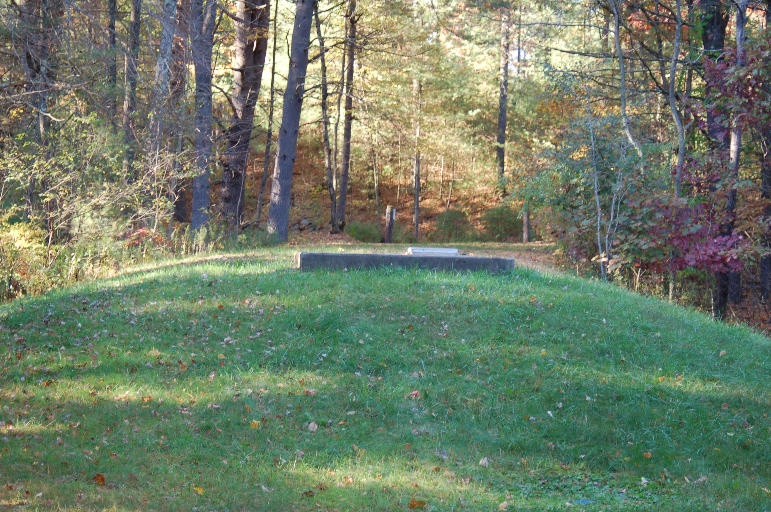 Photo by Richard B. Johnson